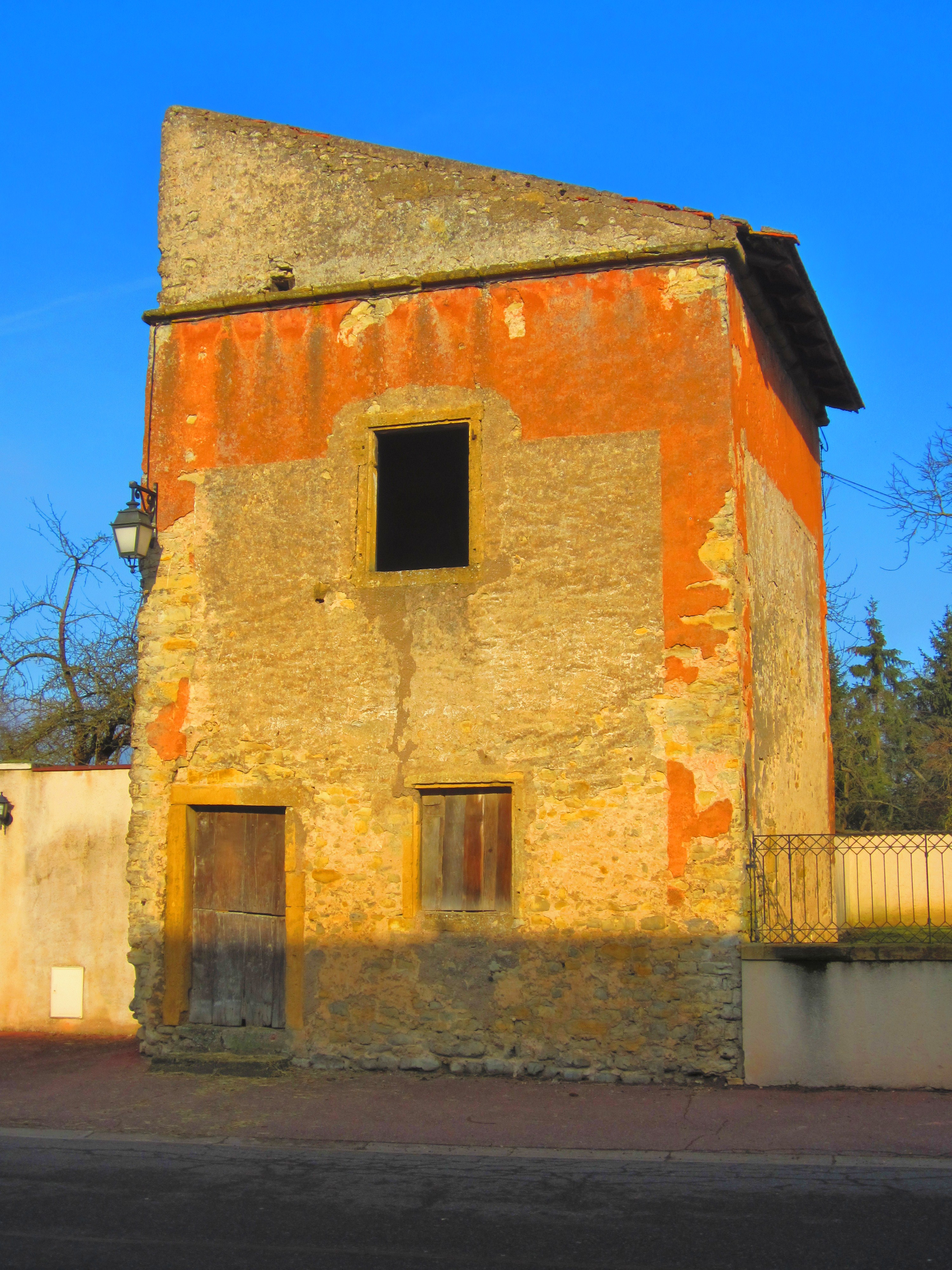 Servigny Ste Barbe suzette